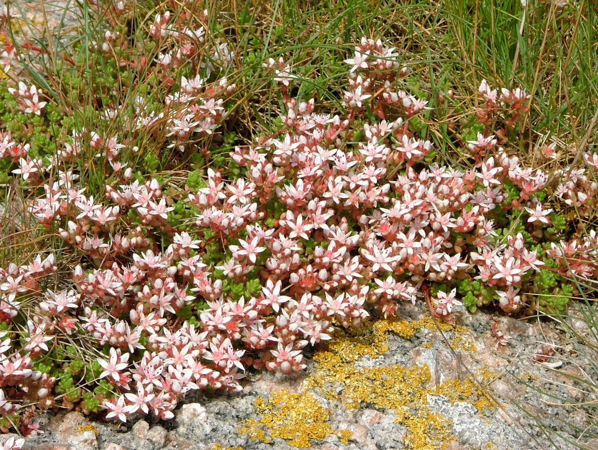 Sedum anglicum